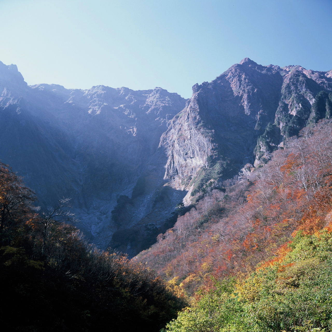 View of Ichinokurasawa in Mount Tanigawa. Tsuitate Rock on the right.